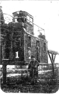 Monorail for wood-transportation, Bor (town), Nizhny Novgorod Oblast, USSR.